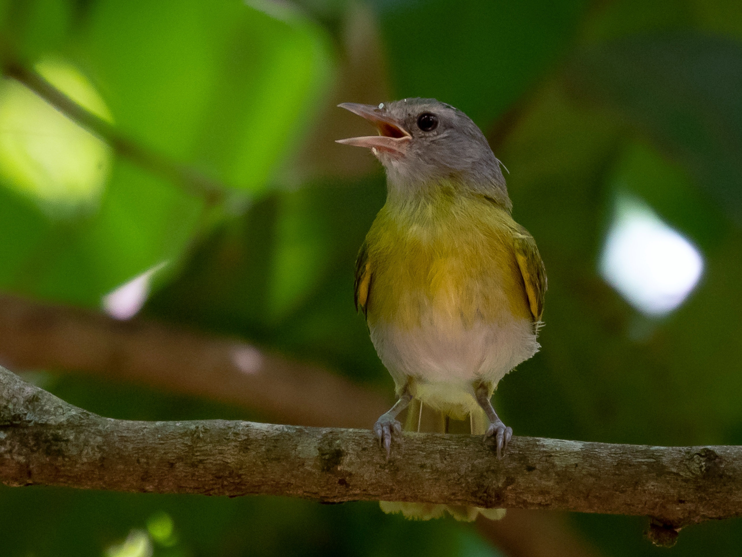 Ashy-headed greenlet; Olimpia, São Paulo, Brazil